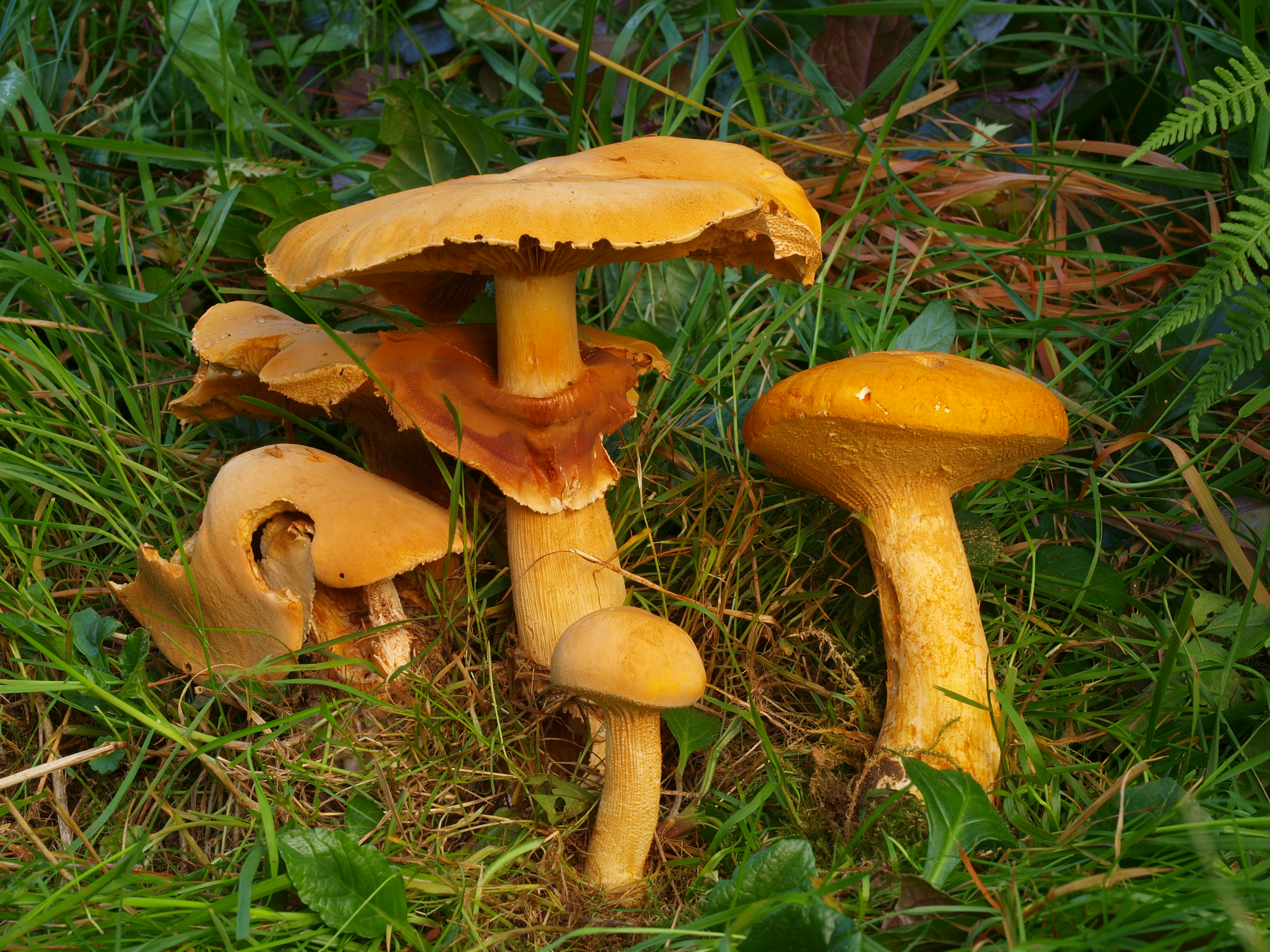 Phaeolepiota aurea